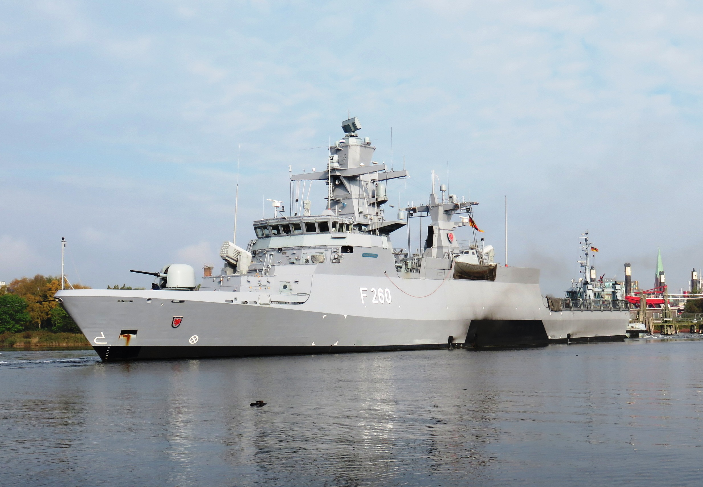 German corvette Braunschweig at the deperming range in Wilhelmshaven